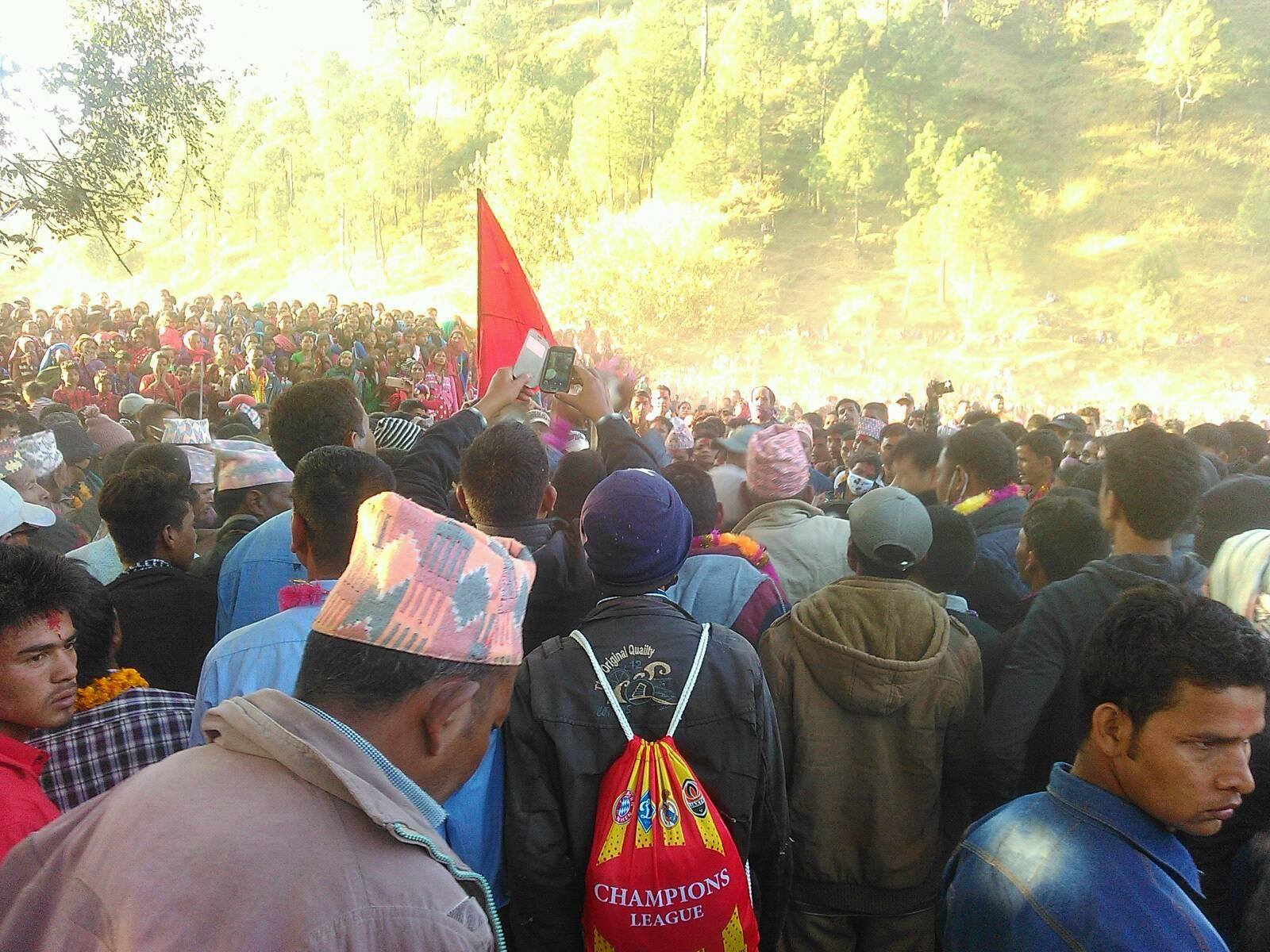 जोरायलको भोस्सो संस्कृति